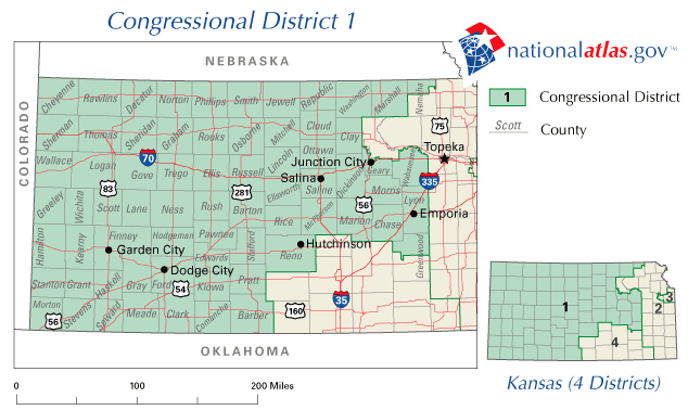 Congressional District 1 of Kansas for the 108th Congress. Also available in pdf format.